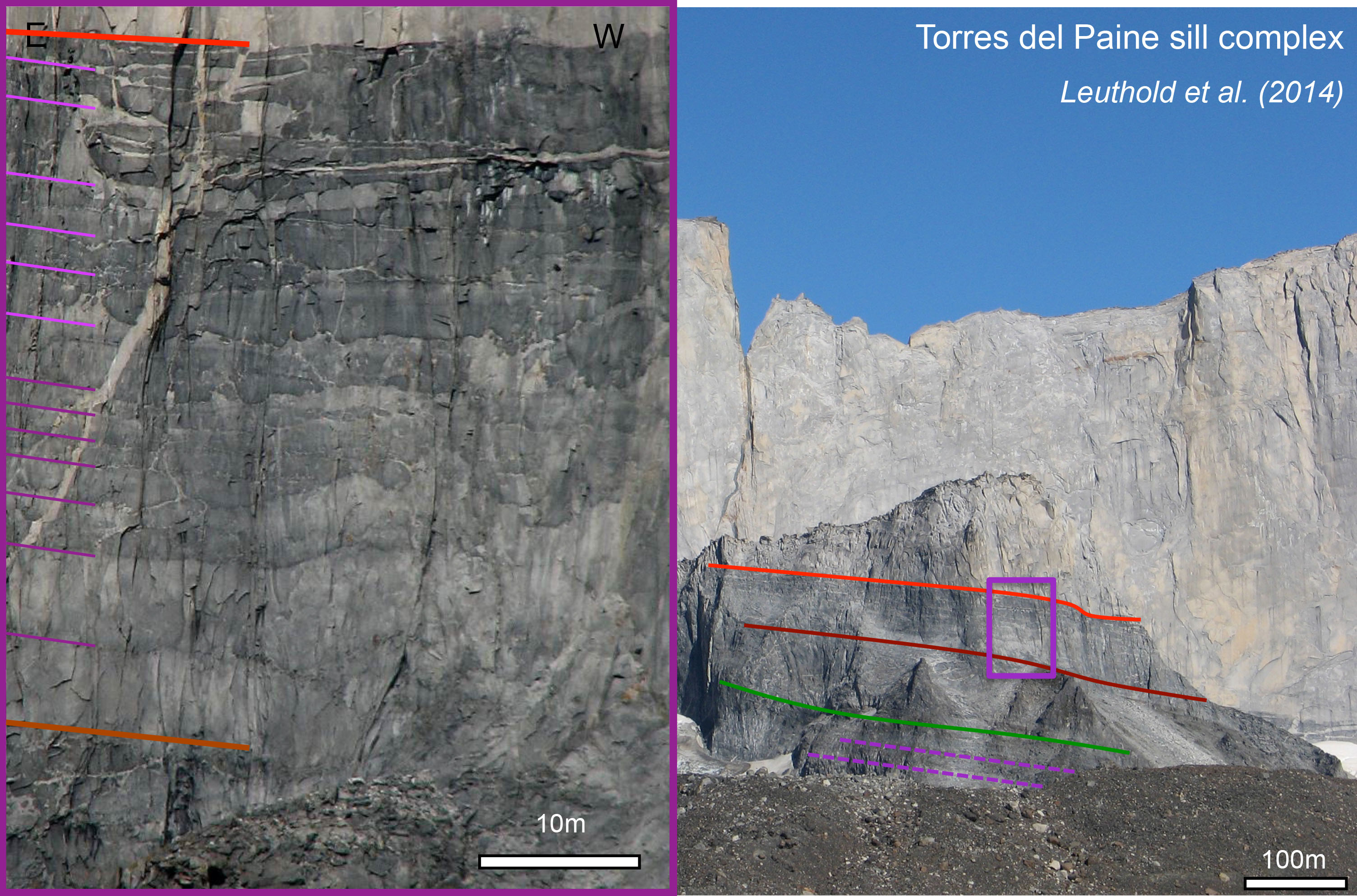 The mafic complex is composed of three main units, themselves composed of sub-units that were built up by successive pulses (sills).